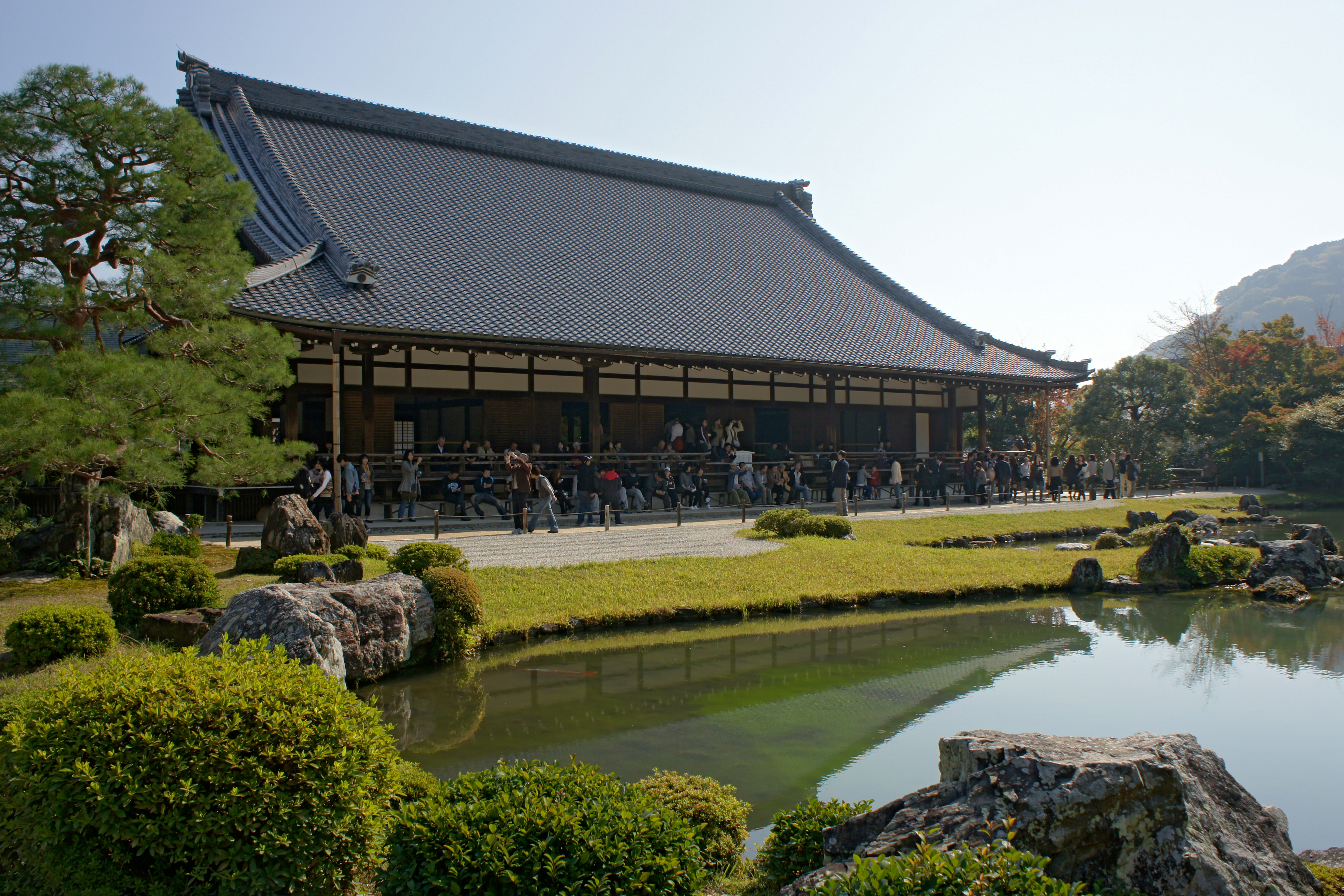 Tenryū-ji in Ukyō-ku, Kyoto, Kyoto prefecture, Japan